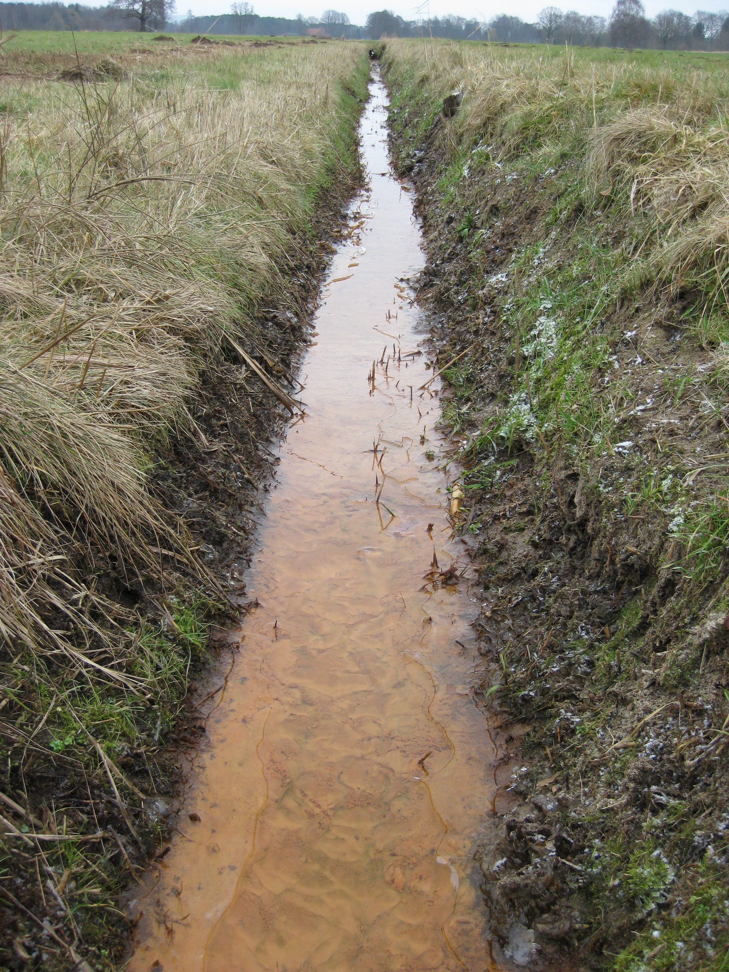 Gütersloh - Nature reserve Am Lichtebach